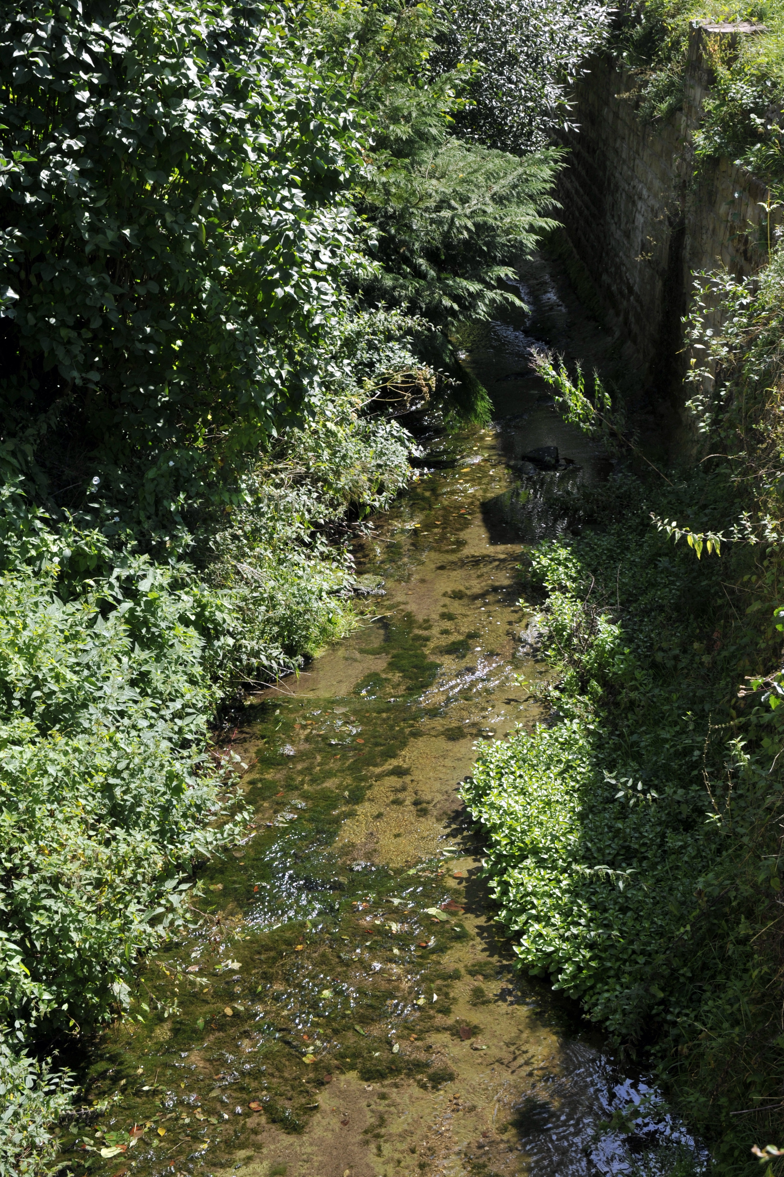 Kesselecksbaach near Christnach